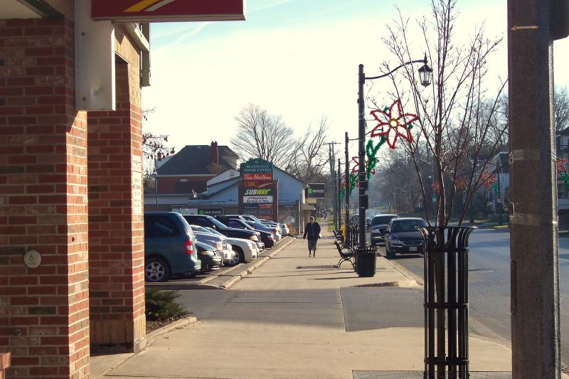 King Street in Beamsville, Ontario. Taken November 25th, 2006 around 10am by myself.